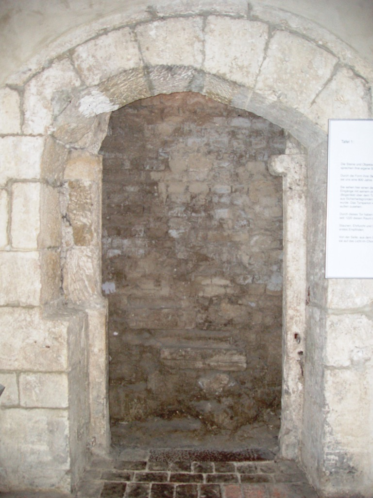 Old gate in Romanesque stile in the crypt of the Michaelerkirche in Vienna